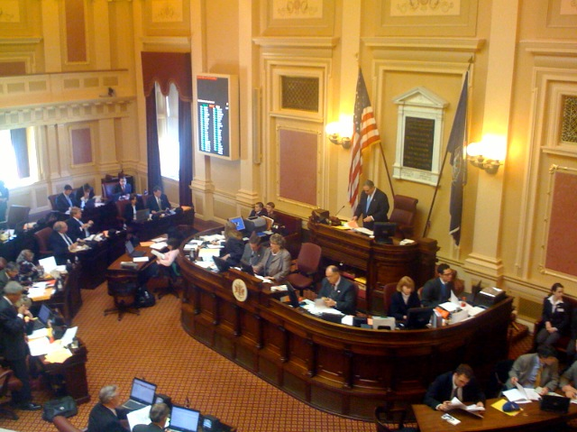 The Senate floor session in the Richmond capitol building.